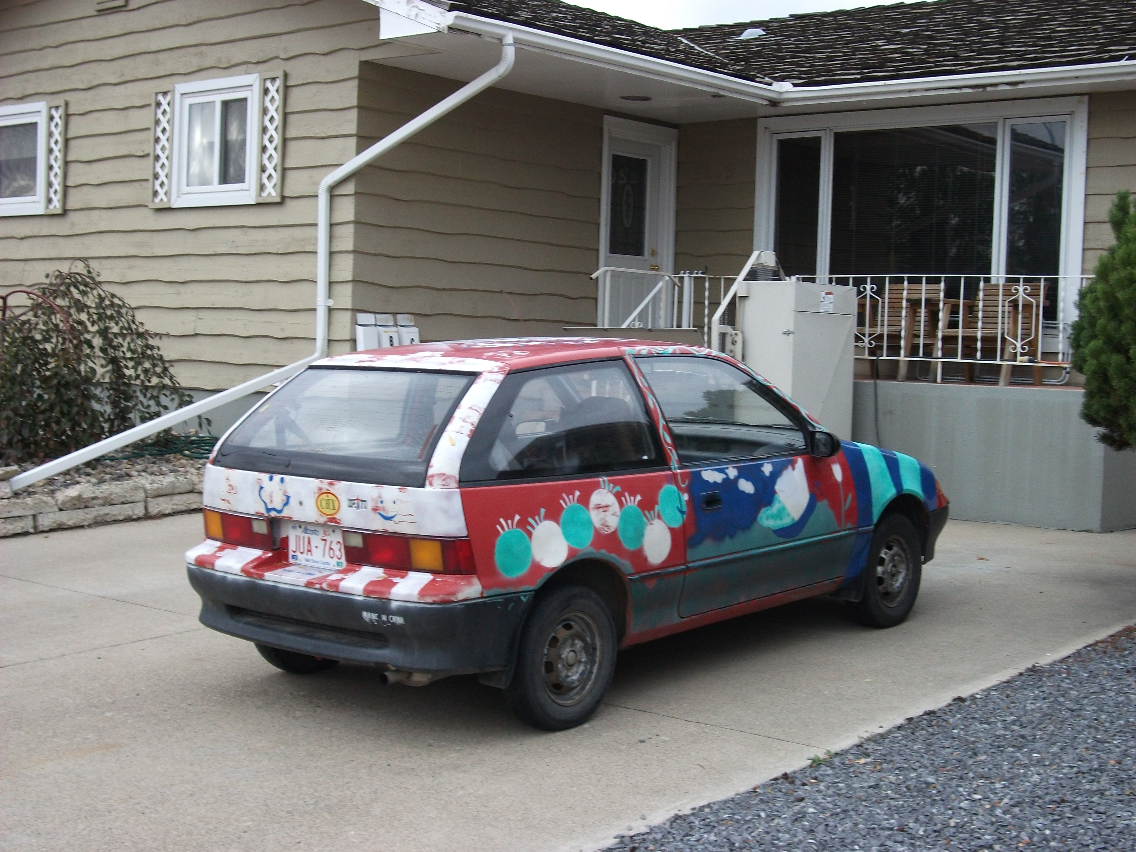 A Chevrolet Sprint according to the steering wheel with wild, home made paint scheme.